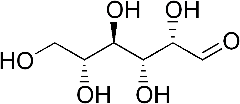 Chemical structure of D-altrose in its linear form.